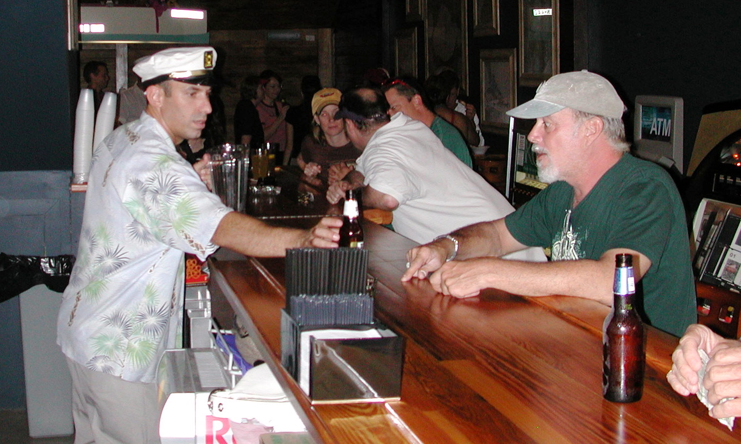 Mid-City Yacht Club Bar, New Orleans. The guy in the baseball cap told me the "new" Dixie beer tastes better than the old version.